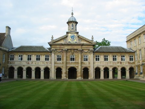 Emmanuel College, Cambridge.